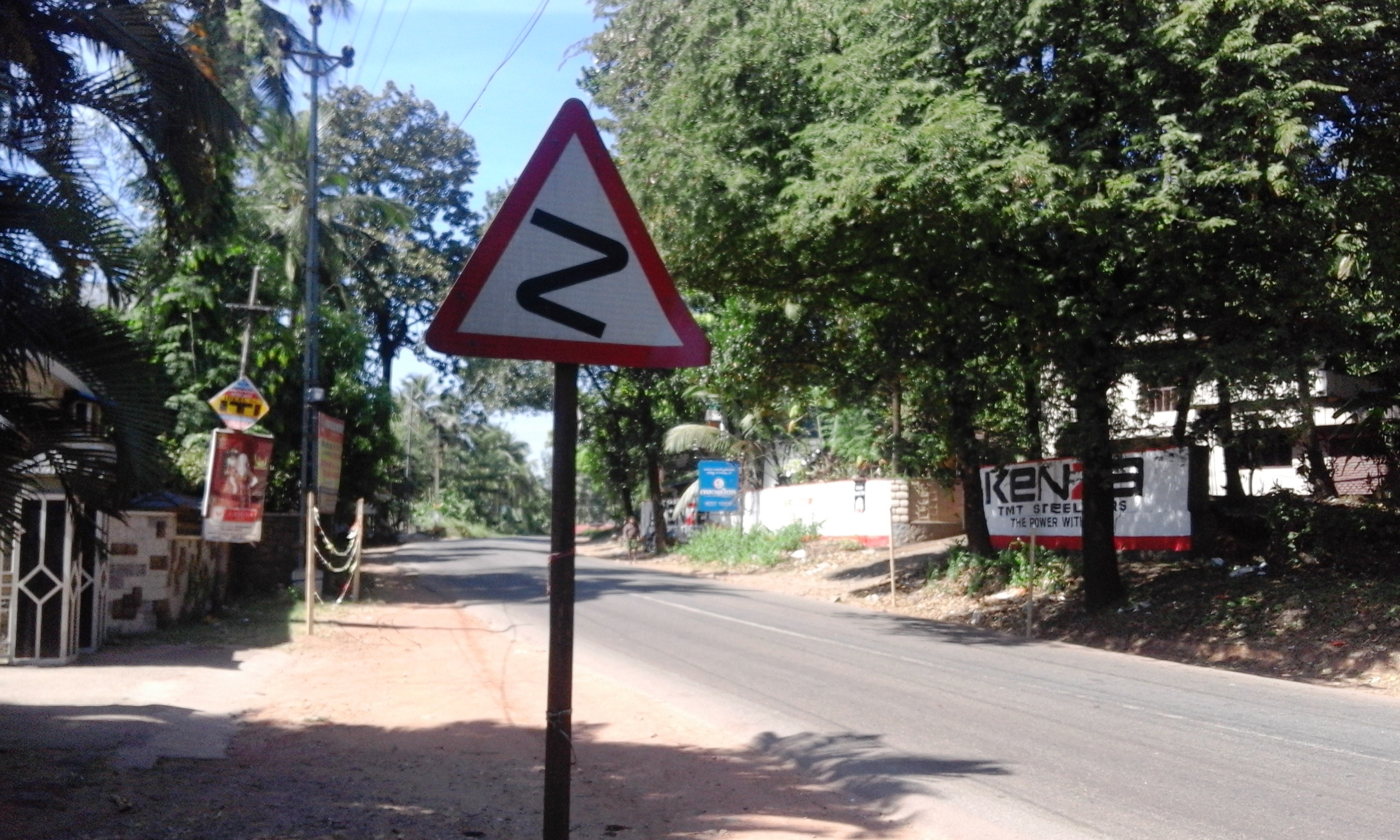 Kanhirappuzha village, Mannarkkat, Palakkad District, Kerala, India.